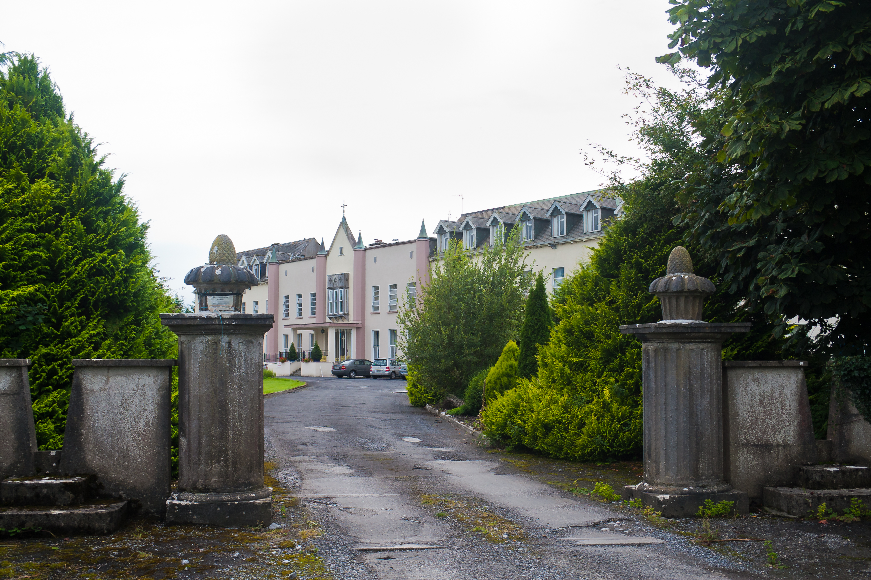 Nursing home in Ferbane, close to the site of Gallen Priory, was originally erected for the Sisters of Saint Joseph.